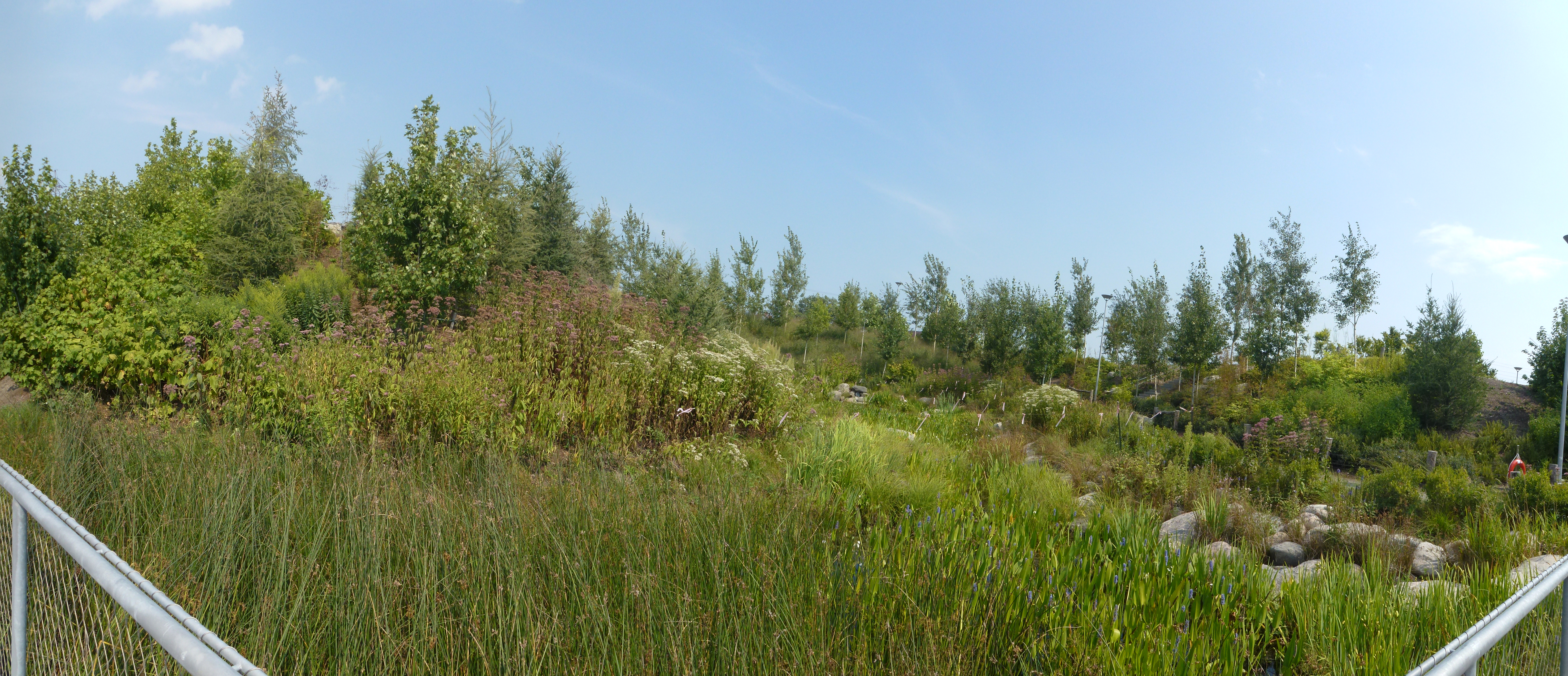 Strolling the West Don Lands.